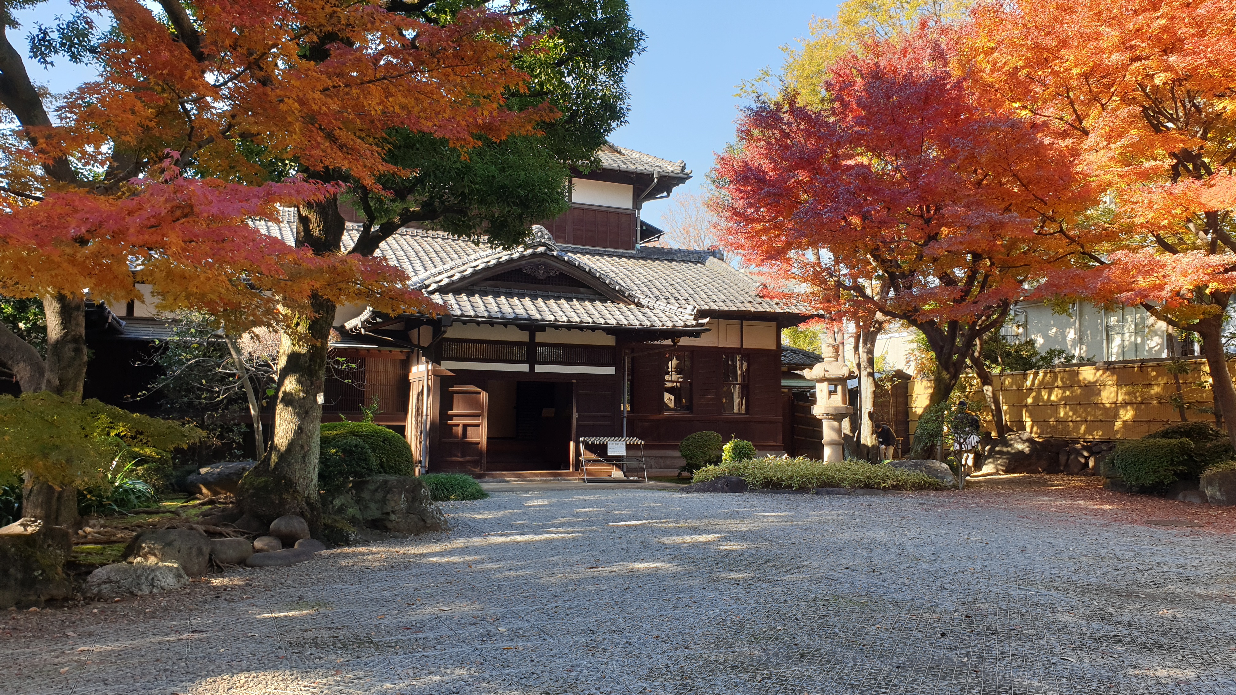 Kyū-Asakura house Shibuya Tokyo - Dec 2019